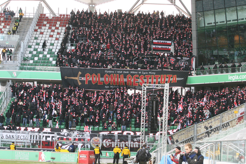 Polonia Warszaw fans in Legia stadium.